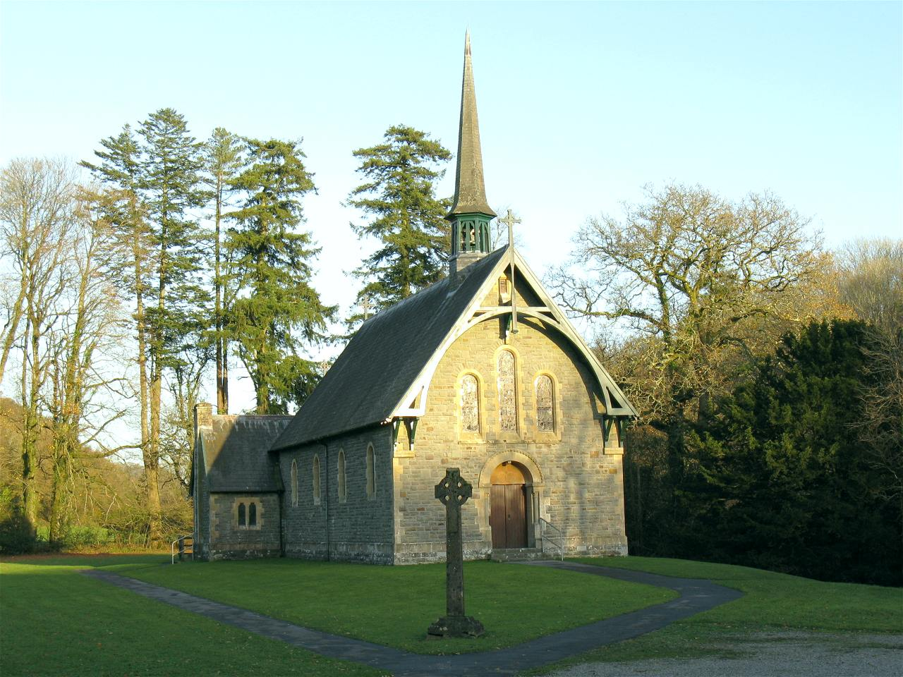 Holy Trinity Church near Pontargothi